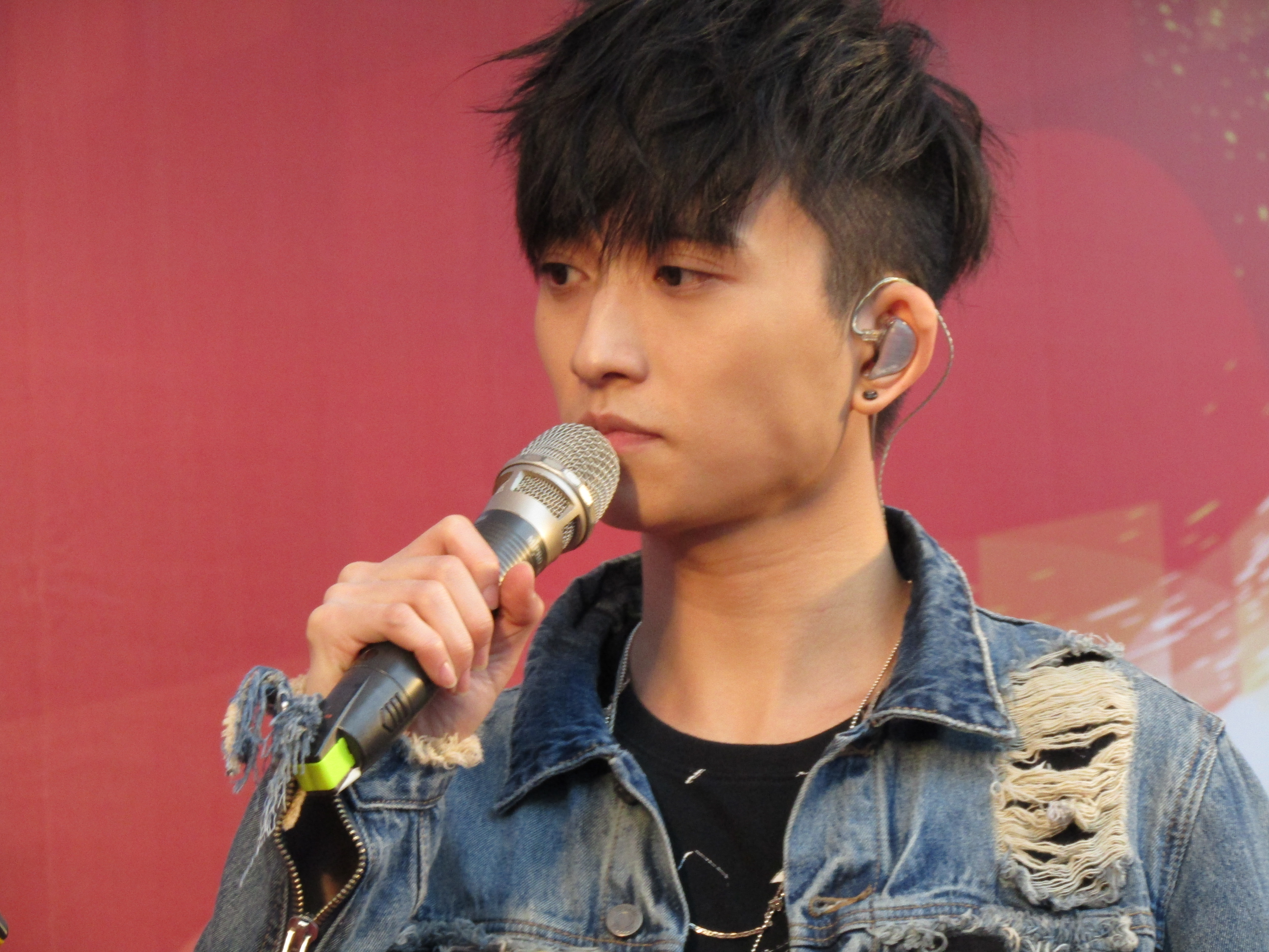 Kenny Khoo is in Huashan 1914 Creative Park